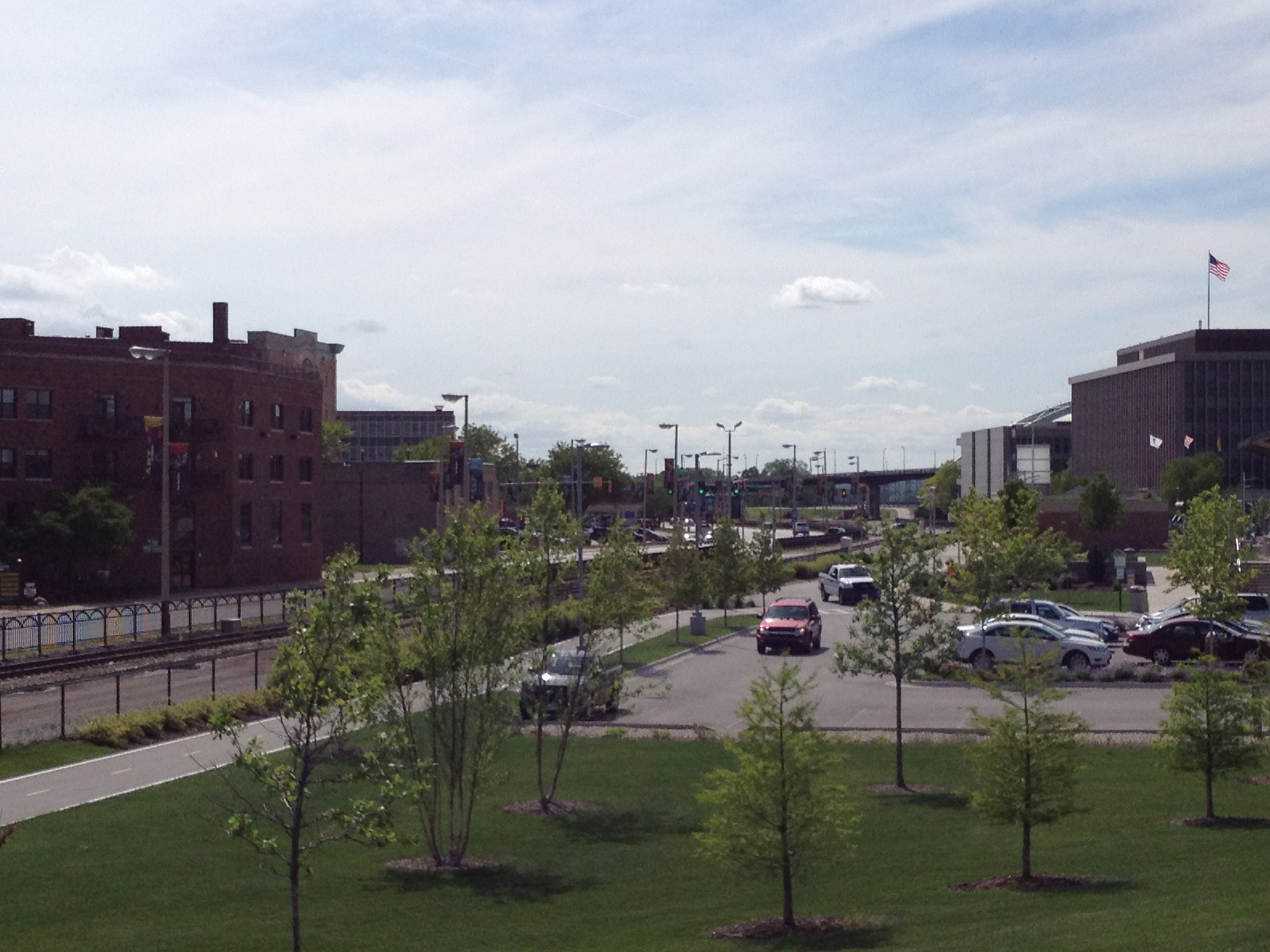 Downtown Rock Island.